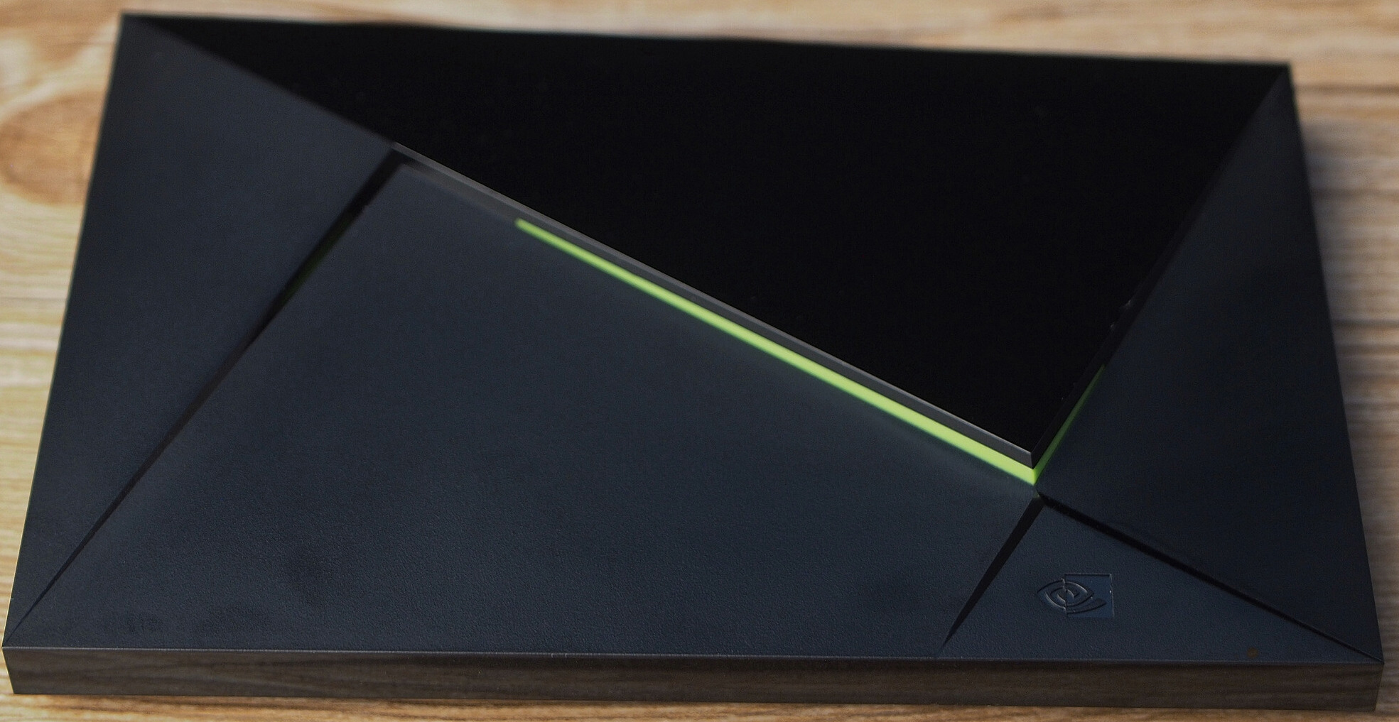 NVIDIA SHIELD TV, 2017 version console.